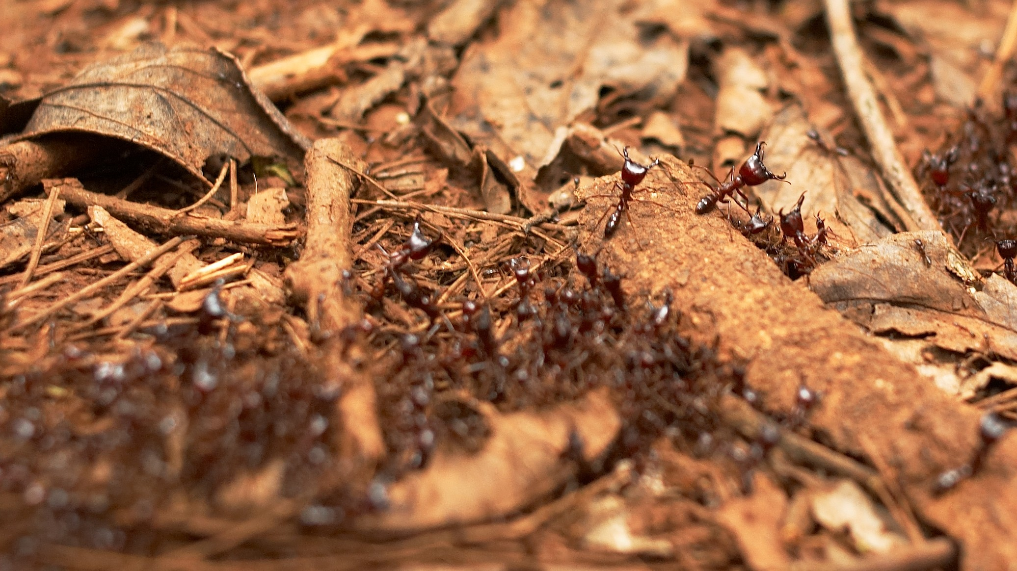 Safari ants on a march in Kakamega Forest, Kenya. The soldiers have created a tunnel through which the workers move, and clearly show their mandibles.